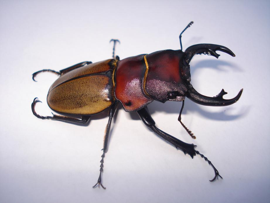 Odontolabis sommeri, 60 mm